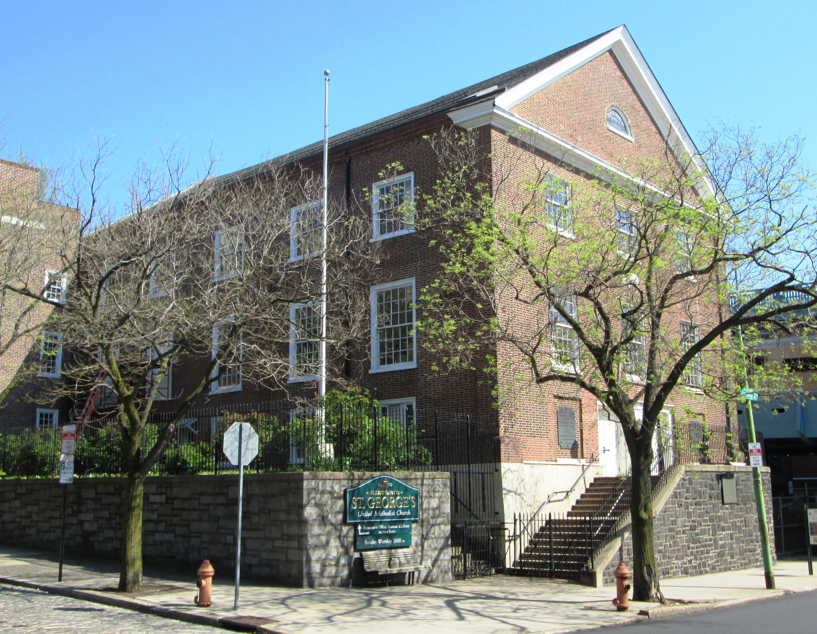 St. George's United Methodist Church, at the corner of 4th and New Streets, in the Old City neighborhood of Philadelphia, is the oldest Methodist church in continuous use in the United States, beginning in 1769. The congregation was founded in 1767, meeting initially in a sail loft on Dock Street, and in 1769 it purchased the shell of a building which had been erected in 1763 by a German Reformed congregation. (Source: Historical marker on site)